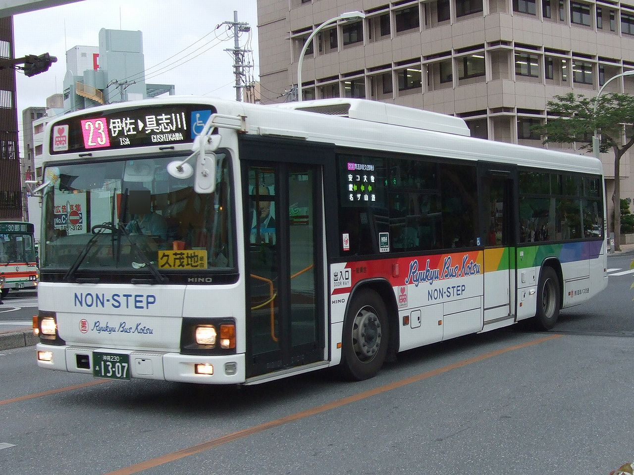 Company:Ryukyu Bus Kotsu Use:transit bus Belongs to:Gushikawa Depot Car license:ONO 230 A 1307 Chassis manufacturer:Hino Motors Type:Blue Ribbon Coachbuilder:J-BUS Location:at Kumoji 3, Naha City, Okinawa, Japan.